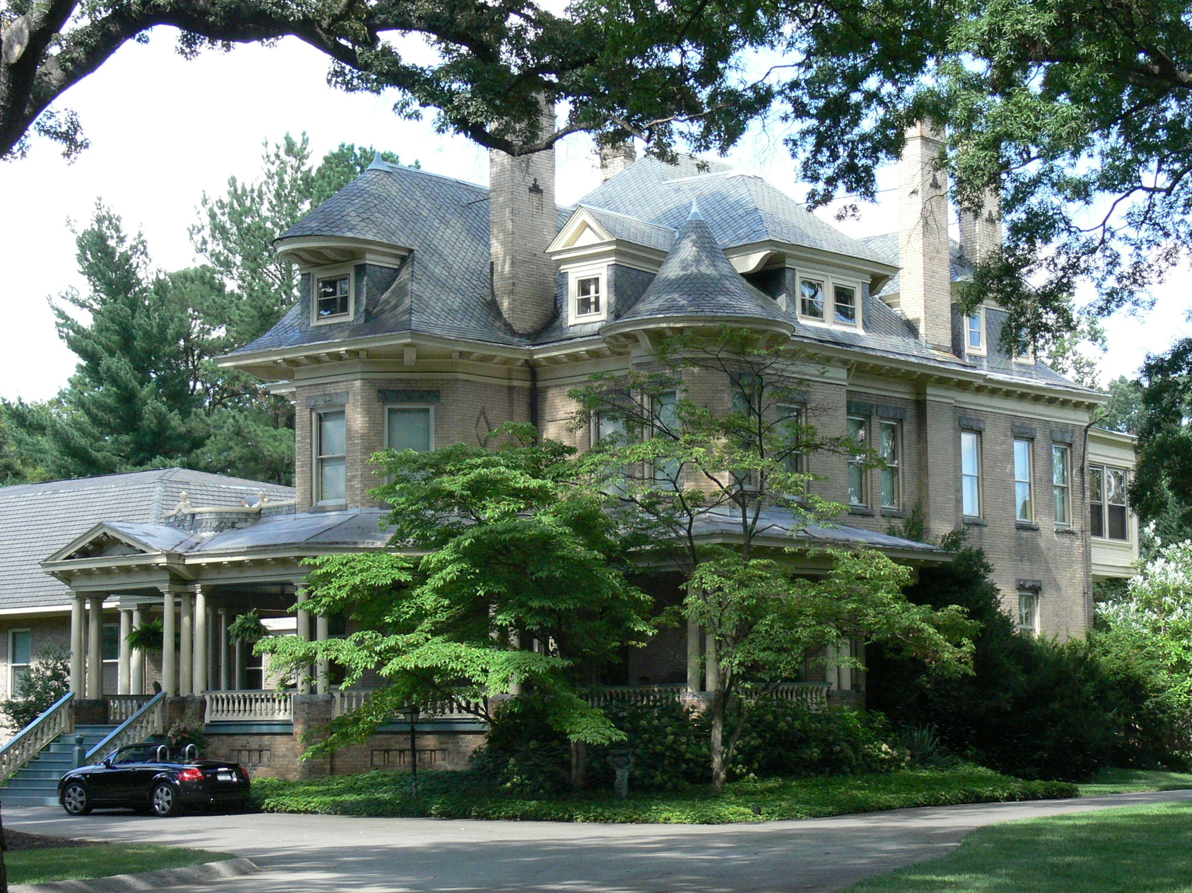 The house "Holly Lawn" in Northside, Richmond, Virginia; on the National Register of Historic Places [rotated and cropped]